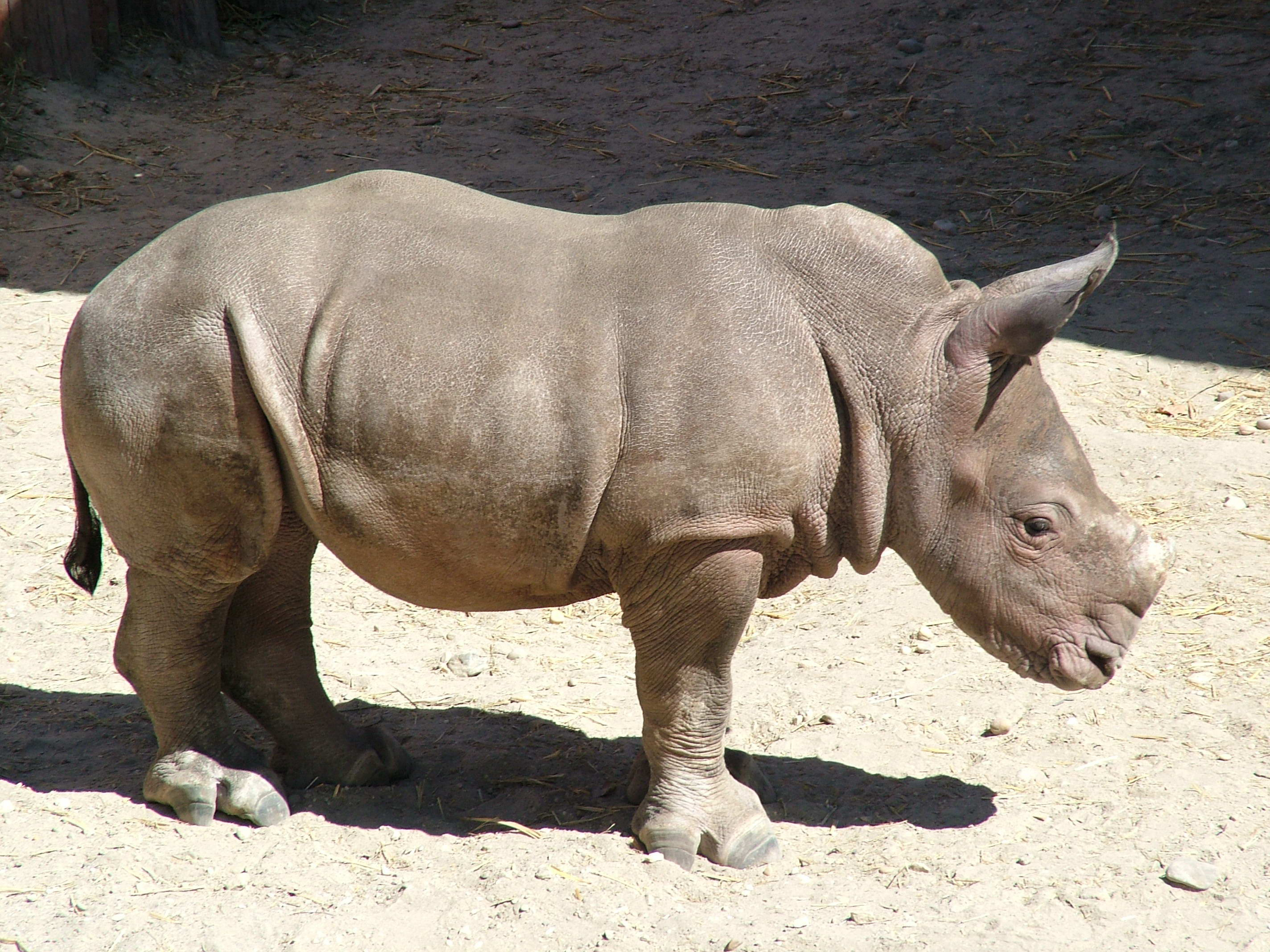 Layla, the white rhino baby, born in the Budapest Zoo in January, 2007